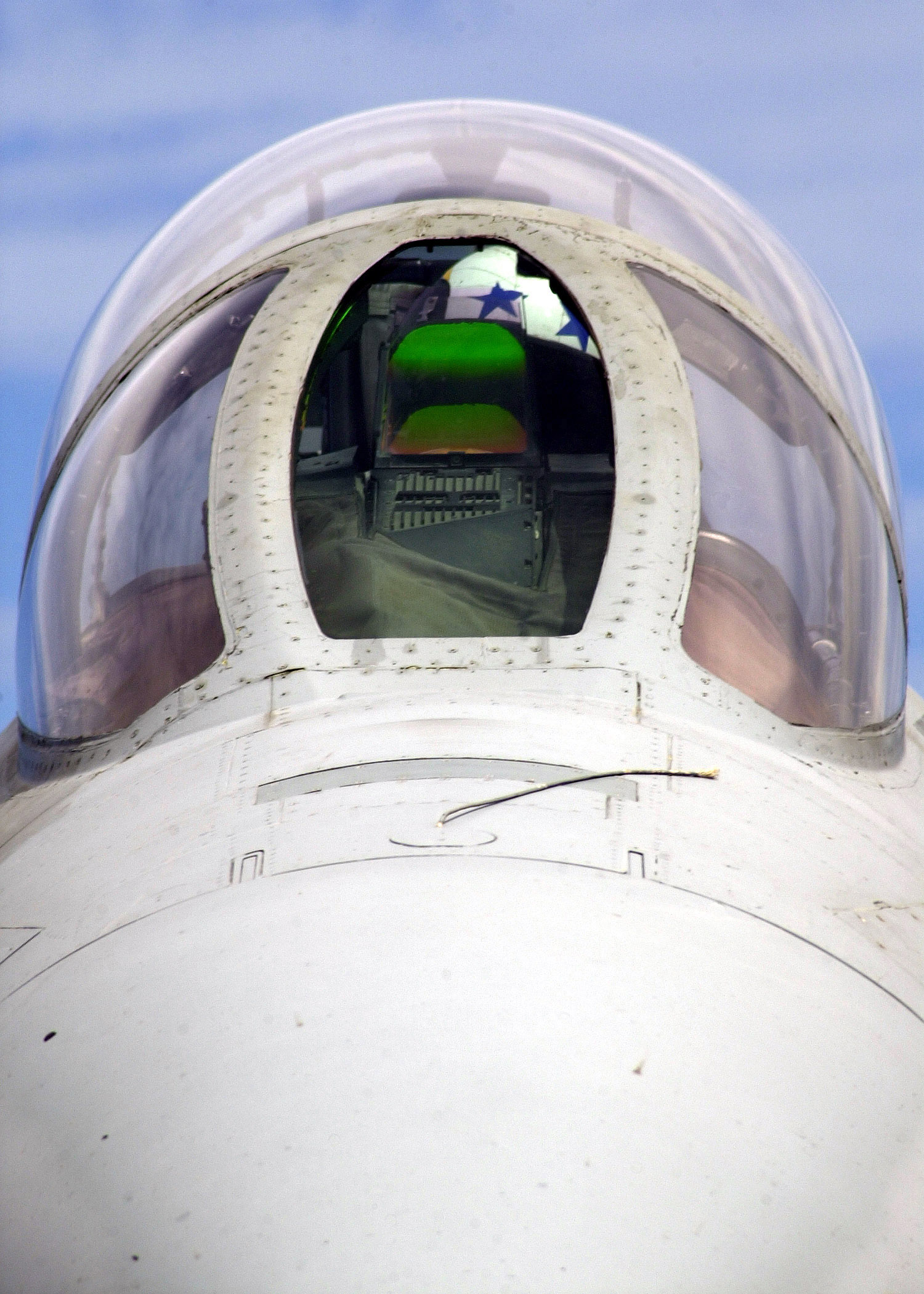 Indian Ocean (Apr. 21, 2003) – A pilot assigned to the “Bounty Hunters” of Fighter Squadron two (VF-2), looks through his Heads-Up Display (HUD) as he checks the systems of his F-14D Tomcat in preparation for a unit level training mission. Constellation and embarked Carrier Air Wing Two (CVW-2) are on a regularly scheduled deployment in support of Operation Iraqi Freedom (OIF), the multinational coalition effort to liberate the Iraqi people, eliminate Iraq's weapons of mass destruction and end the regime of Saddam Hussein. U.S. Navy photo by Photographer's Mate 2nd Class Daniel J. McLain (RELEASED)